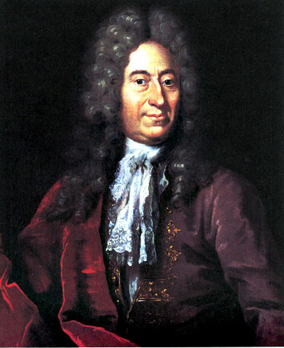 Portrait of the Danish astonomer Ole Rømer